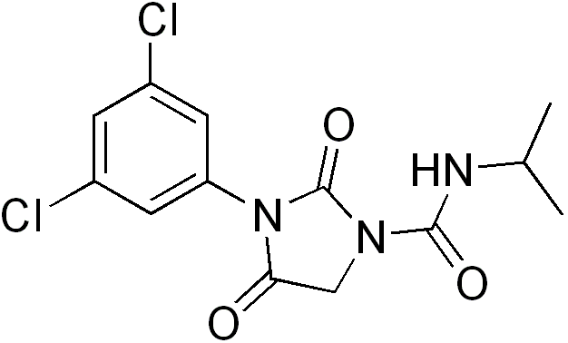 chemical structure of iprodione